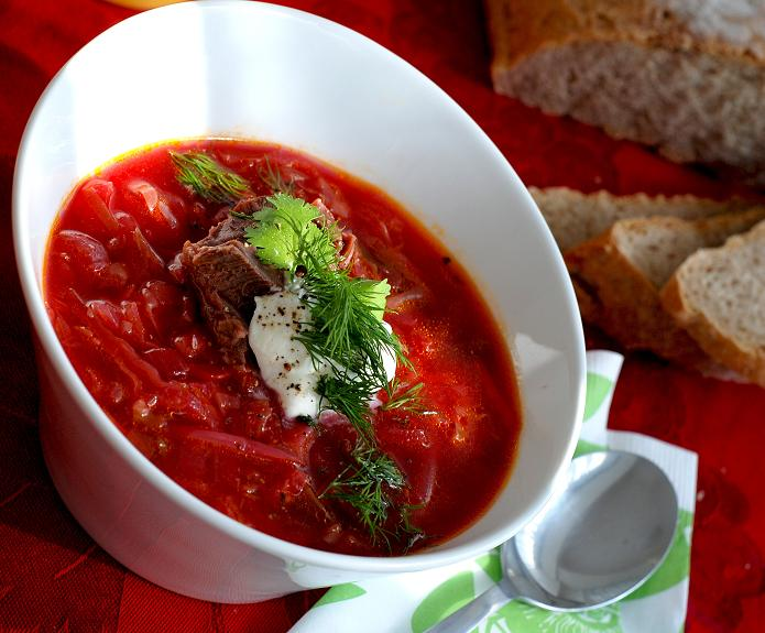 Russian borscht with beef and sour cream. Home made rye bread in the background.